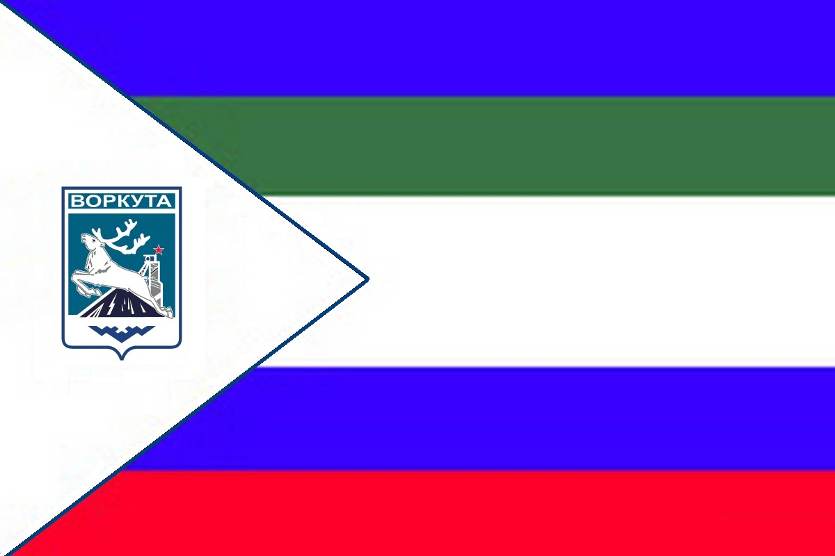 Flag of the city of Vorkuta , the autonomous republic of Komi (Russia)